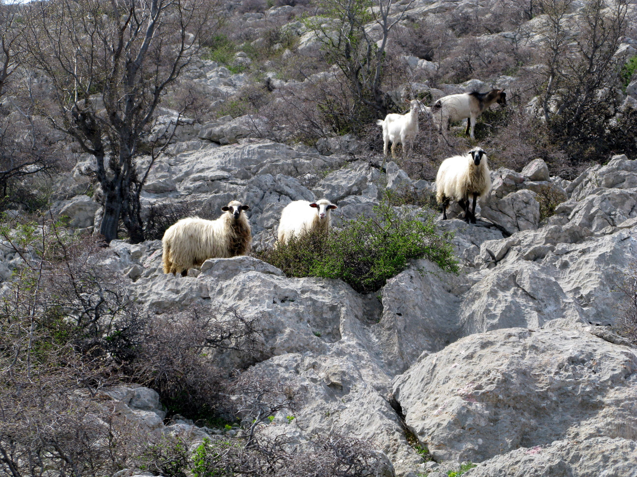 Sheeps and goats in the Karst of Ljubotič , a village above Tribanj Kruščica at the Adriatic Highway near Starigrad in the Velebit mountain range in Croatia / Balkans / southeastern Europe.